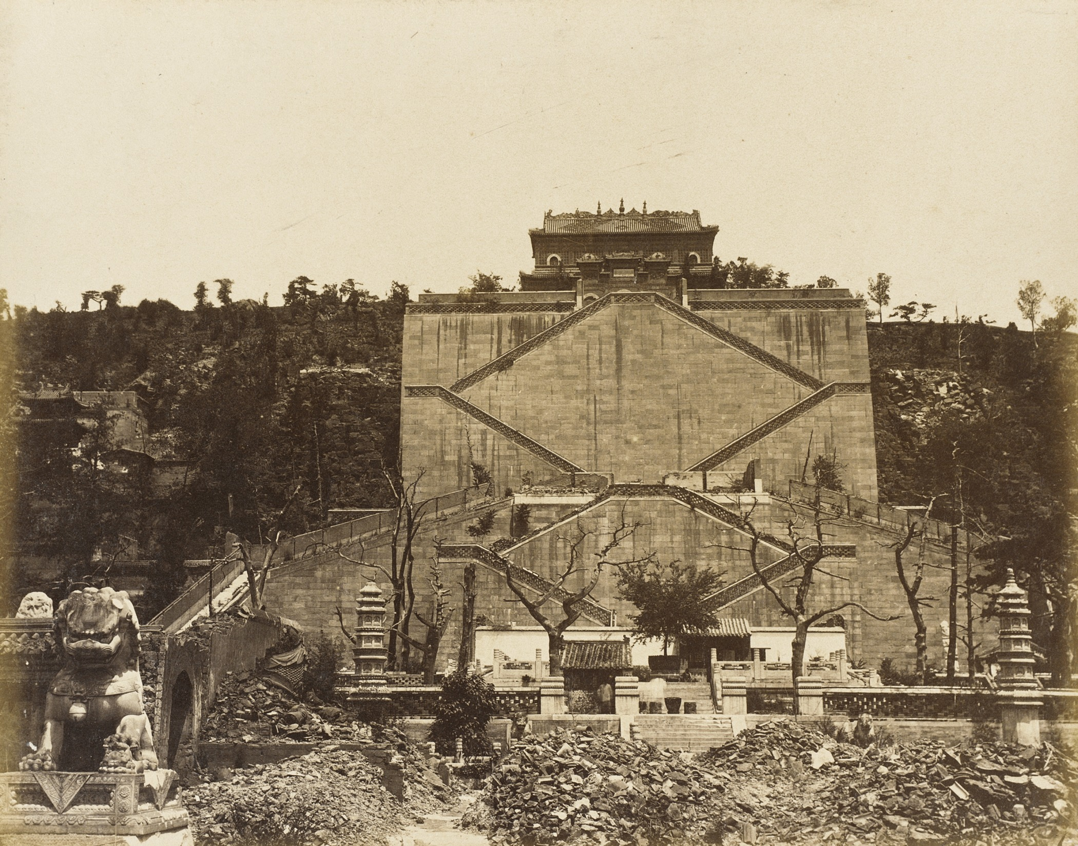 Italy, 1860 Photographs Albumen print Unframed: 7 1/2 x 9 1/2 in. (19.05 x 24.13 cm) Gift of Mr. and Mrs. Philip Feldman (M.83.302.39) Photography